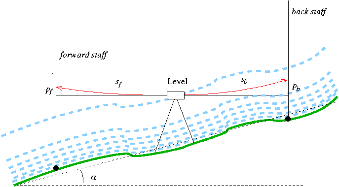 Levelling refraction; self-drawn.